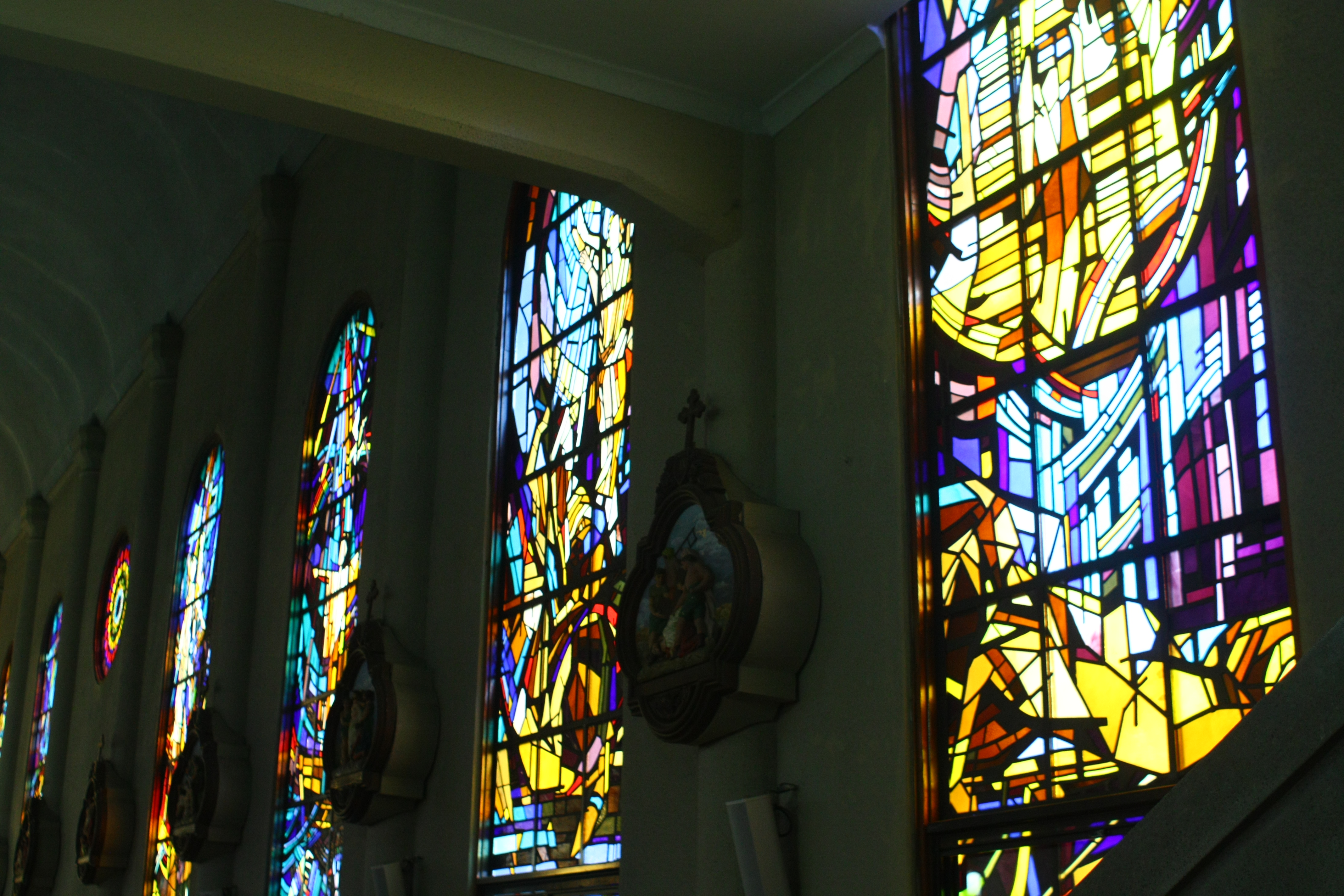 Dapdong cathedral